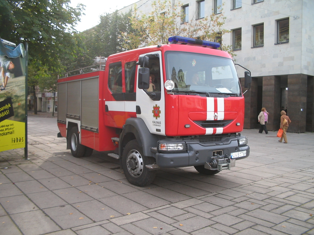 Fire Engine, Kaunas (Lithuania).